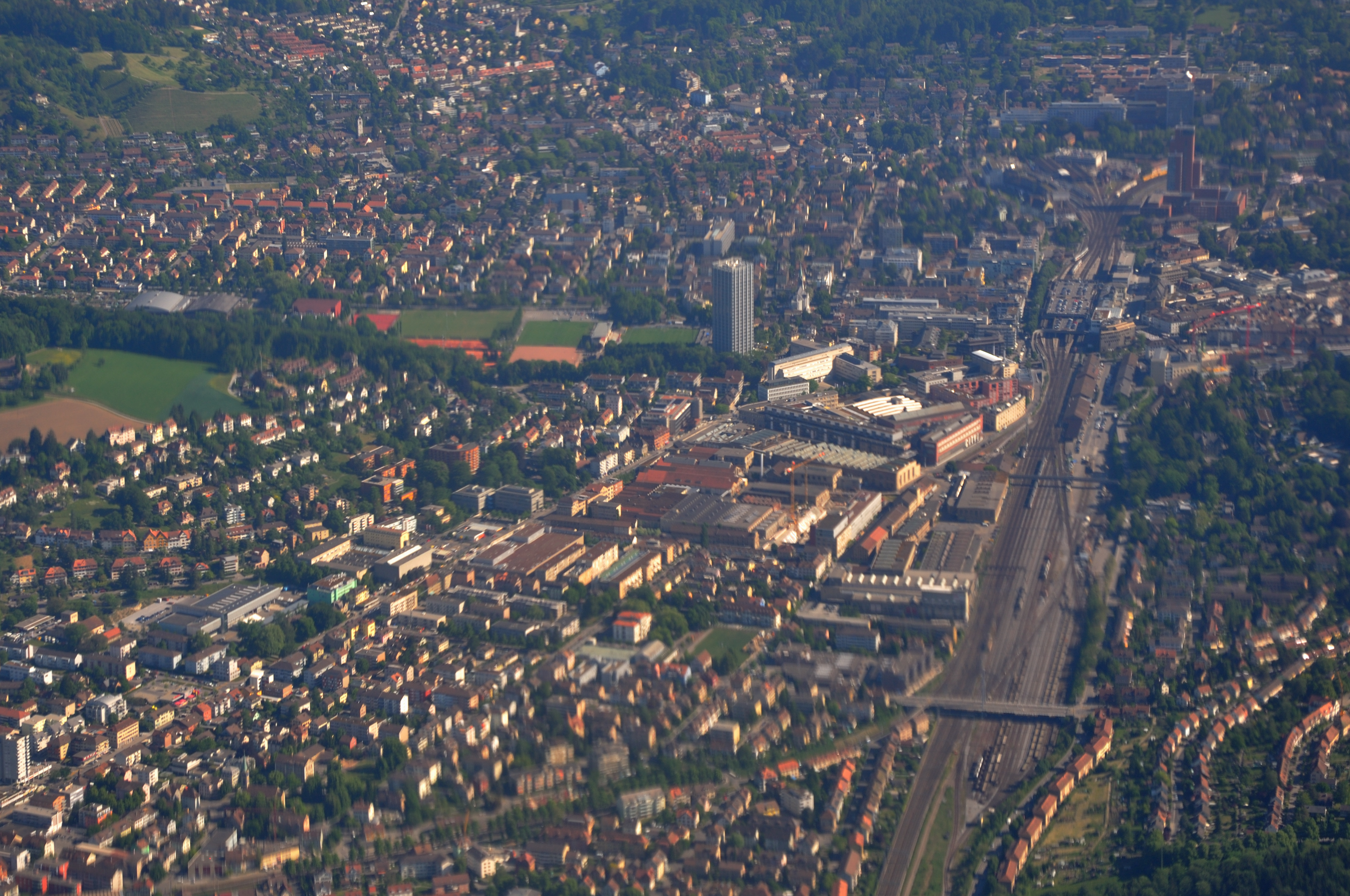 Switzerland, Canton of Zürich, aerial view of Winterthur